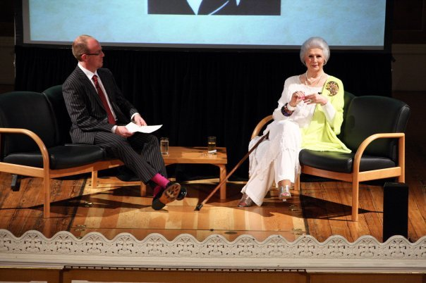 An Evening With April Ashley as part of Liverpool's 2008 Homotopia festival @ St Georges Hall, Liverpool (15th November 2008).